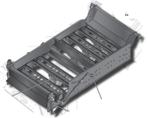 A mobile screening equipment which only has a single deck.